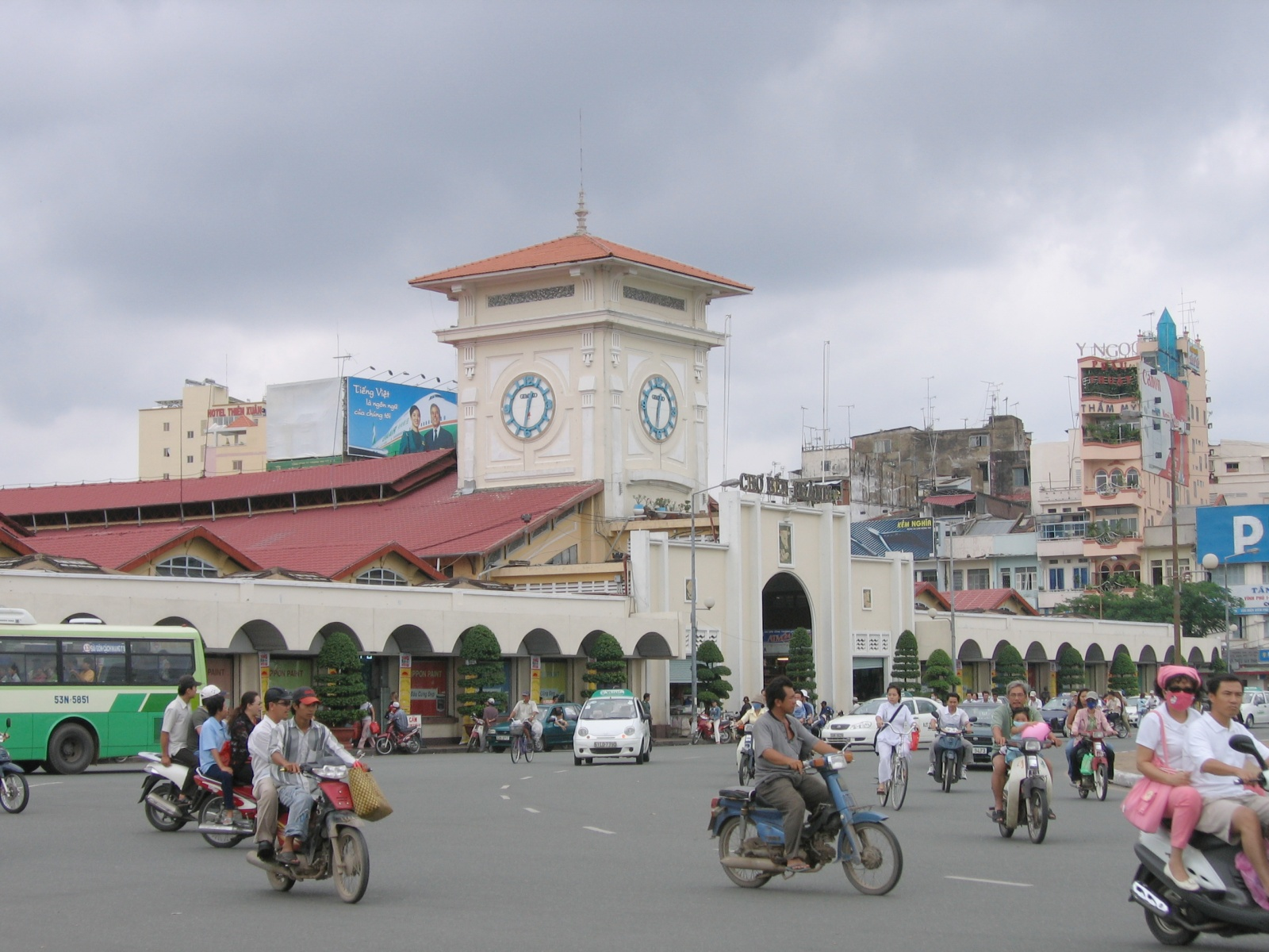 Ben Thanh Market in Ho Chi Minh City, Vietnam.